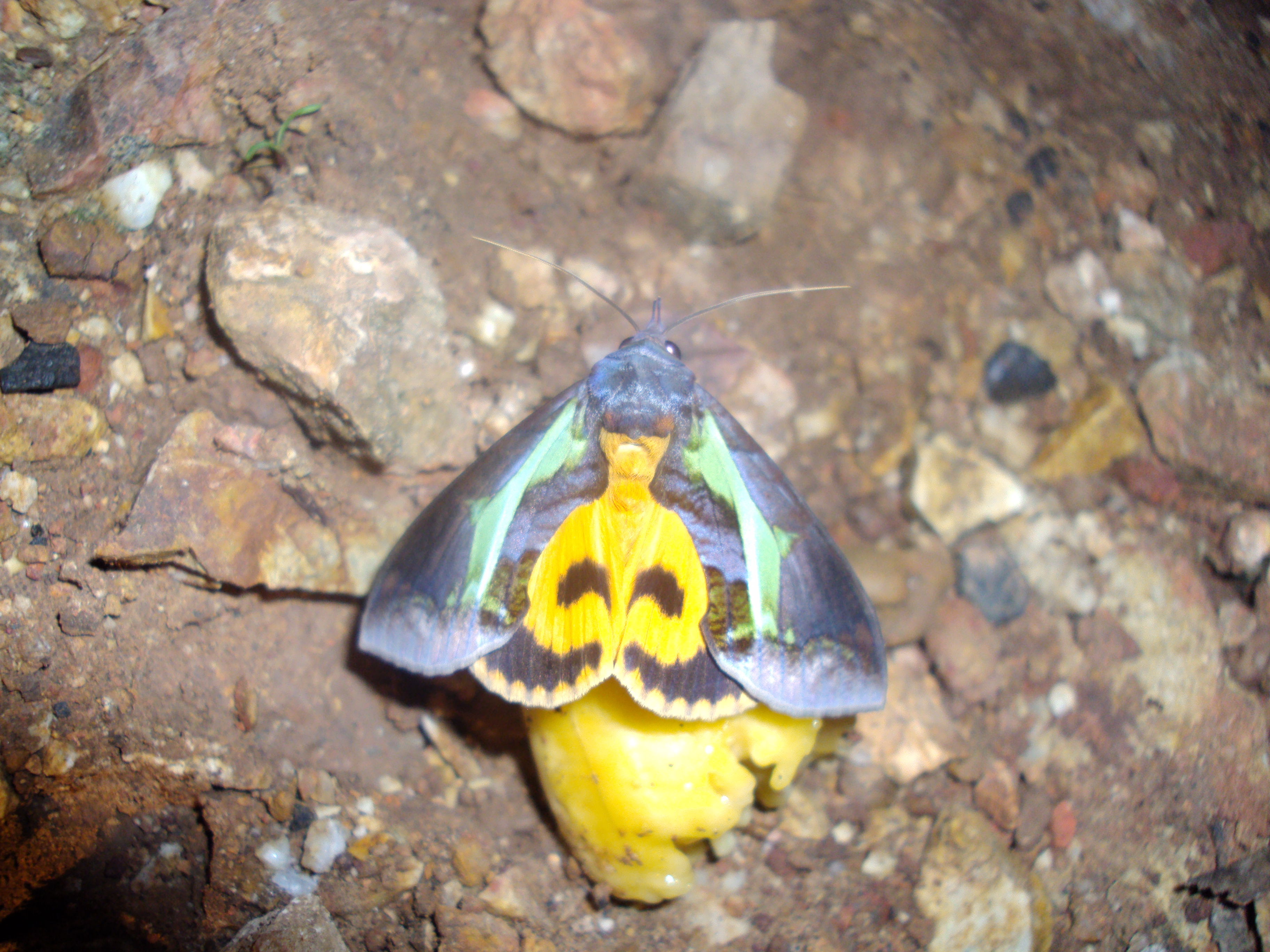 Eudocima homaena (Hübner, 1816) female found in kerala